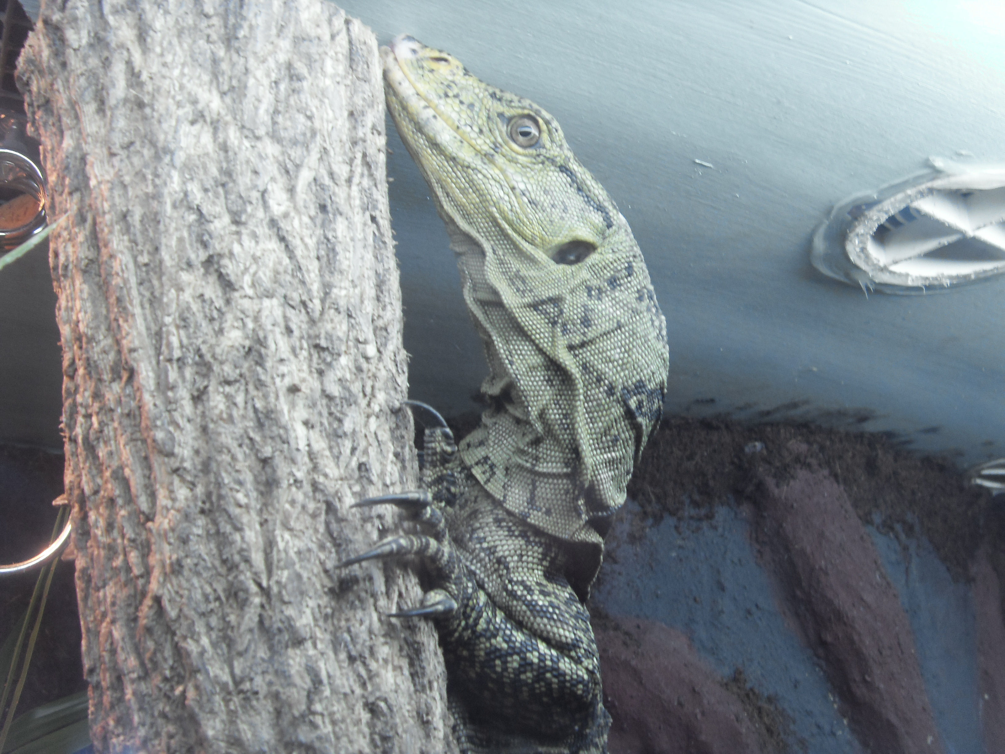 Grays Monitor on Display at Wingham Wildlife Park